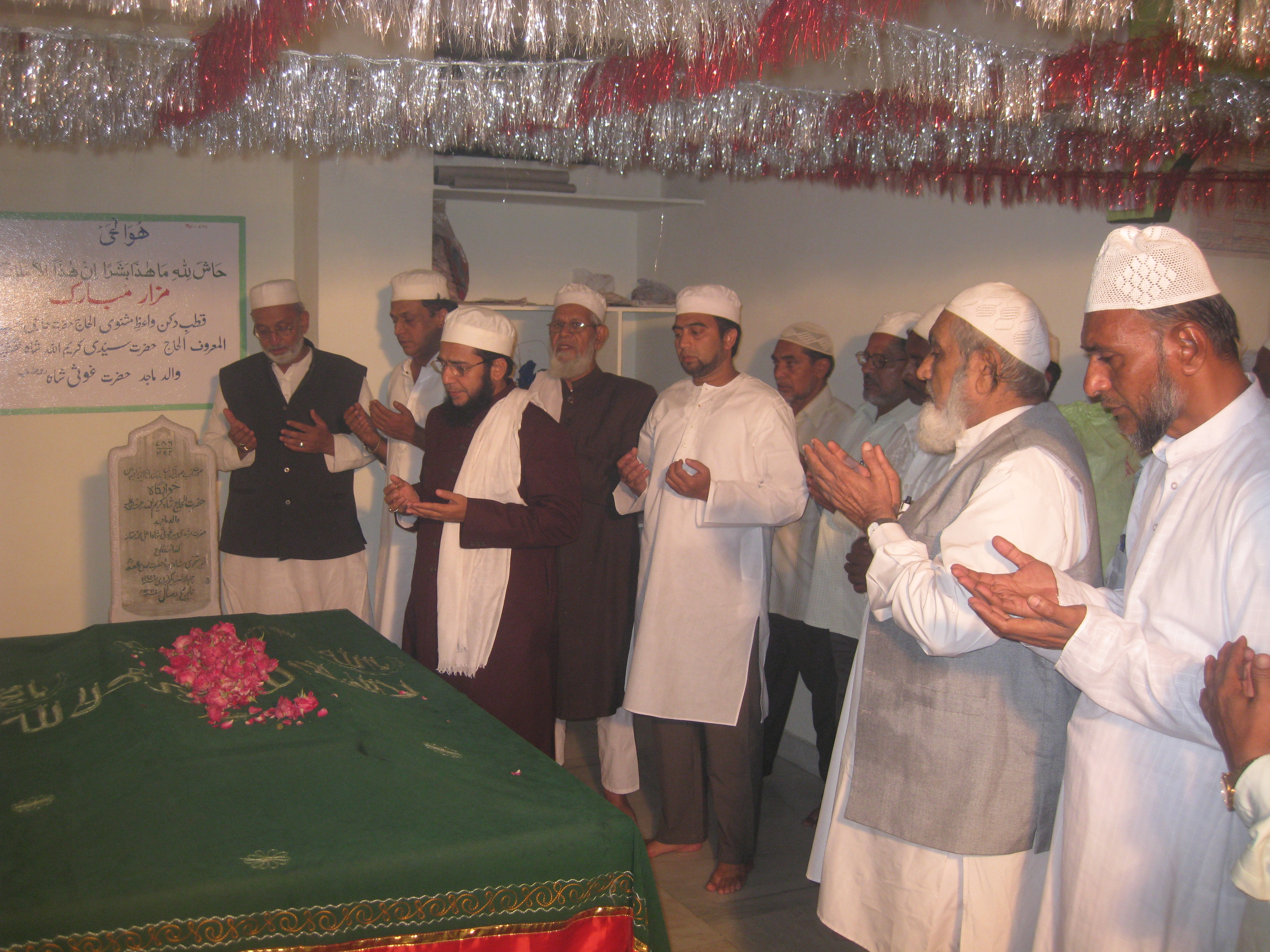 Grave (Mazaar) photo of Alhaj Hazrath Peer Kareemullah Shah